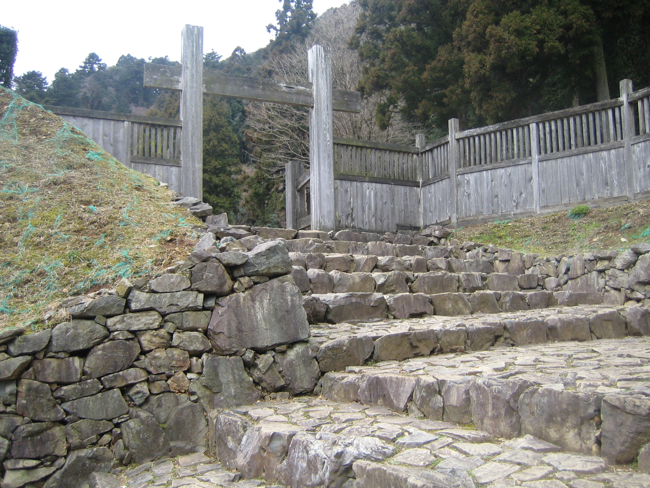 Entrance of Goshuden, Hachioji-jo